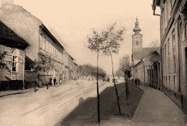 Main street of Titel, around 1909Srpski (latinica): Glavna ulica u Titelu, oko 1909. godine